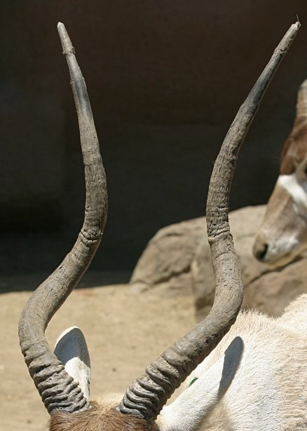 Horns of an Addax